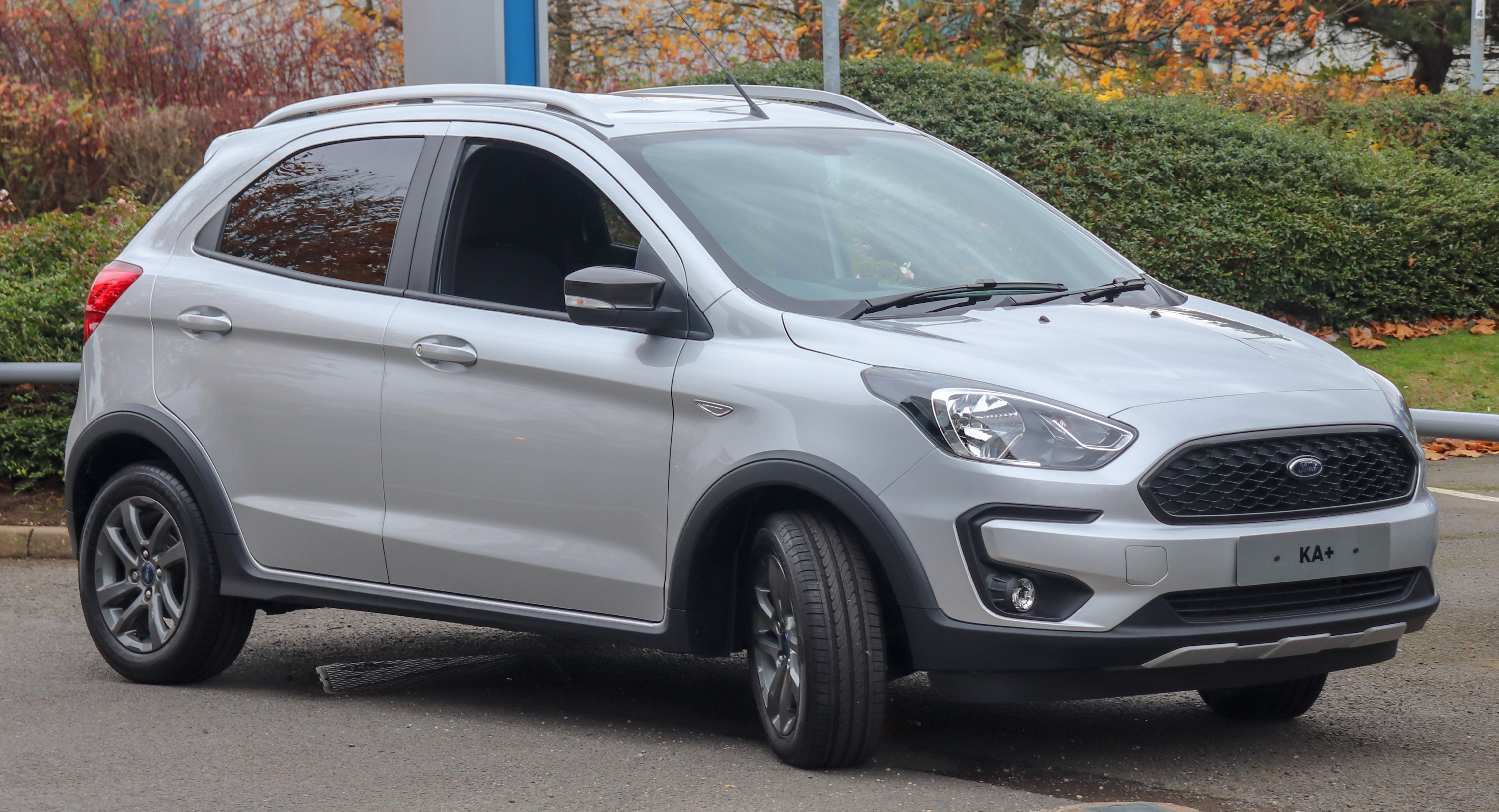 2018 Ford KA+ Active Front Taken in Lemaington Spa